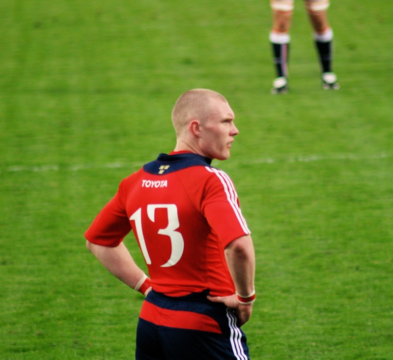 Munster, Ireland and British & Irish Lions player Keith Earls. This taken while playing for Munster against Llanelli Scarlets in the Magner's League.